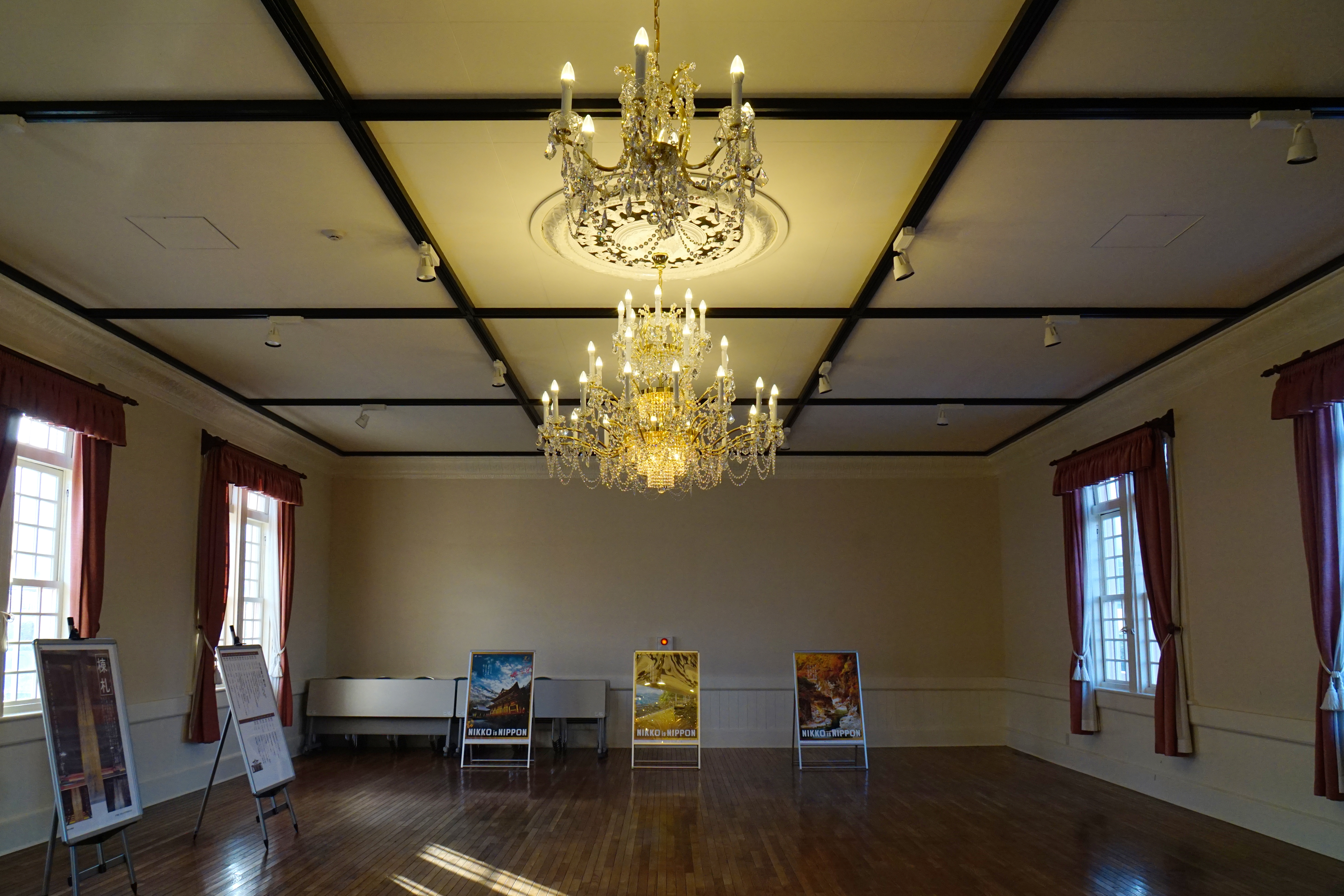 Nikkō Station in Nikko, Tochigi prefecture, Japan